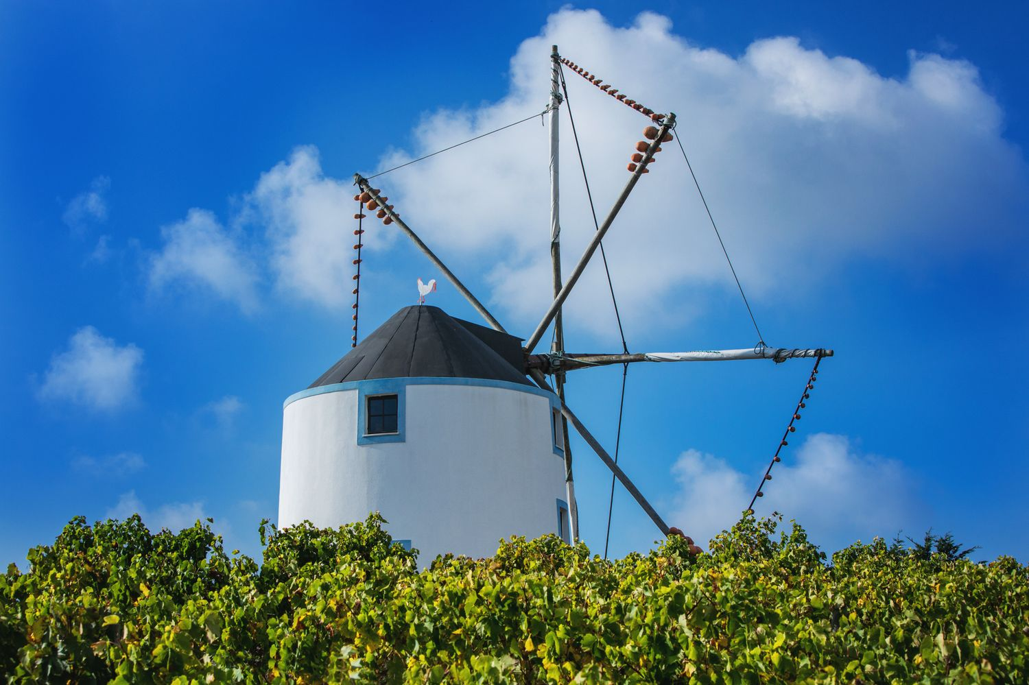 Pão de Mafra